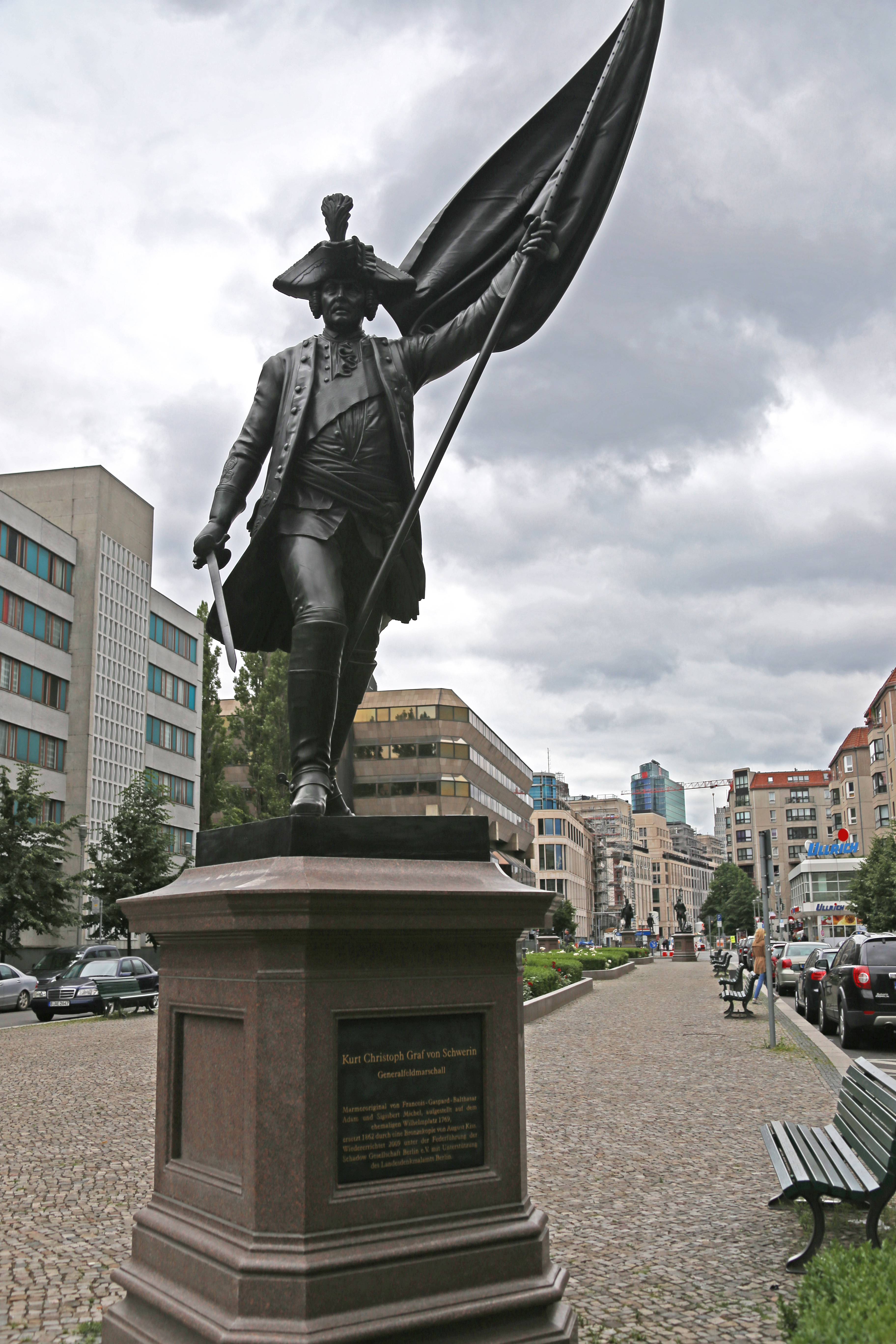 Statue of Field Marshall Kurt von Schwerin in the Zietenplatz